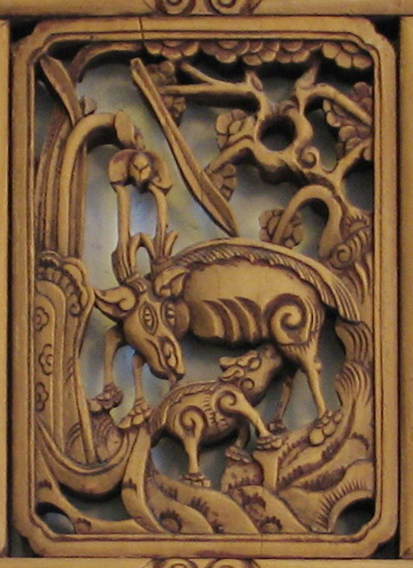 Chinese wooden lattice relief detail with animal